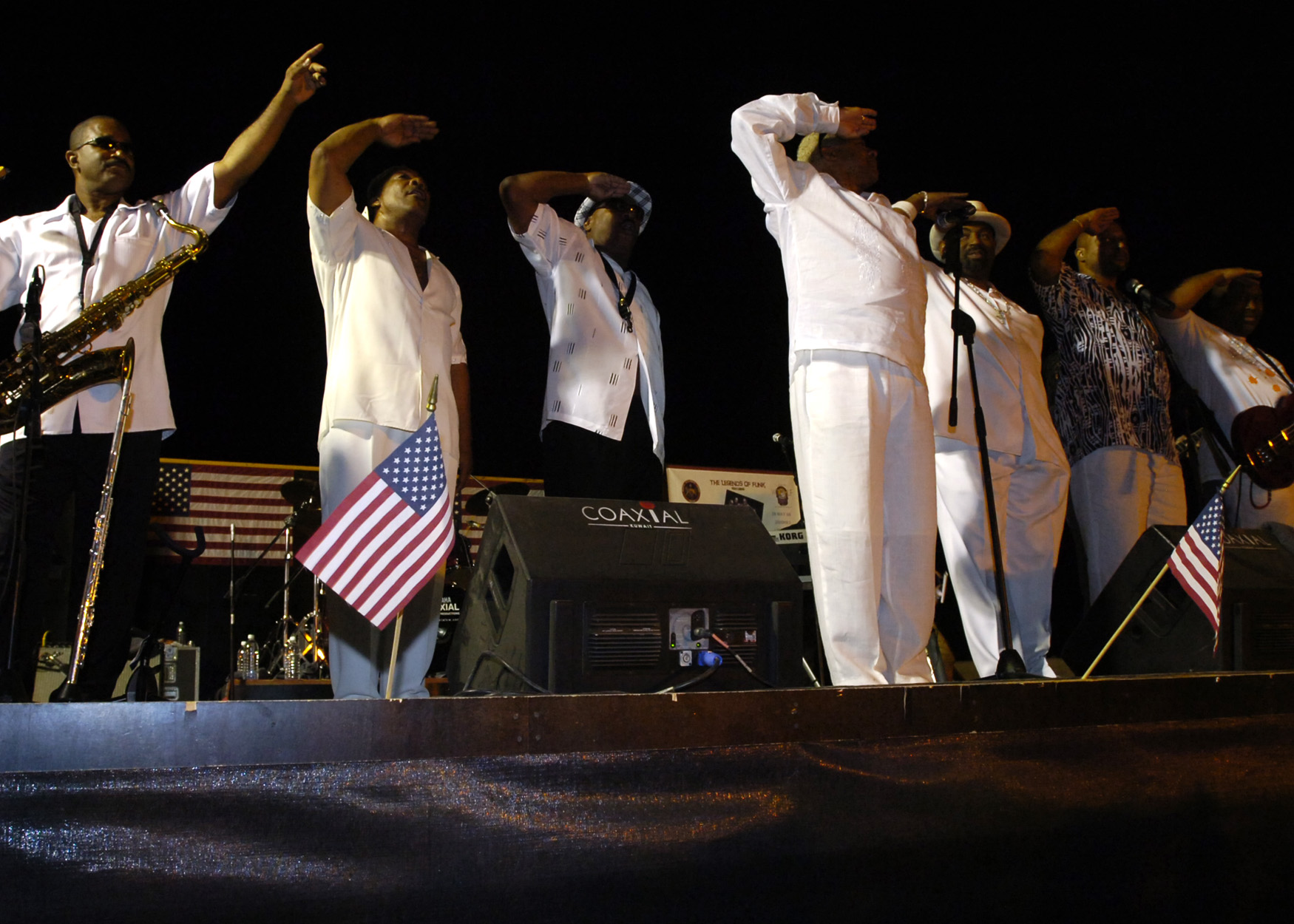 Members of "The Legends of Funk" salute the troops after their performance at the Camp Liberty Post Exchange May 29. The group is a combination of three funk bands; the Bar-Kays, the Dazz Band and Con Funk Shun and will be performing five shows during their time overseas; one in Kuwait and four in Iraq two of which will be played on Camp Liberty.